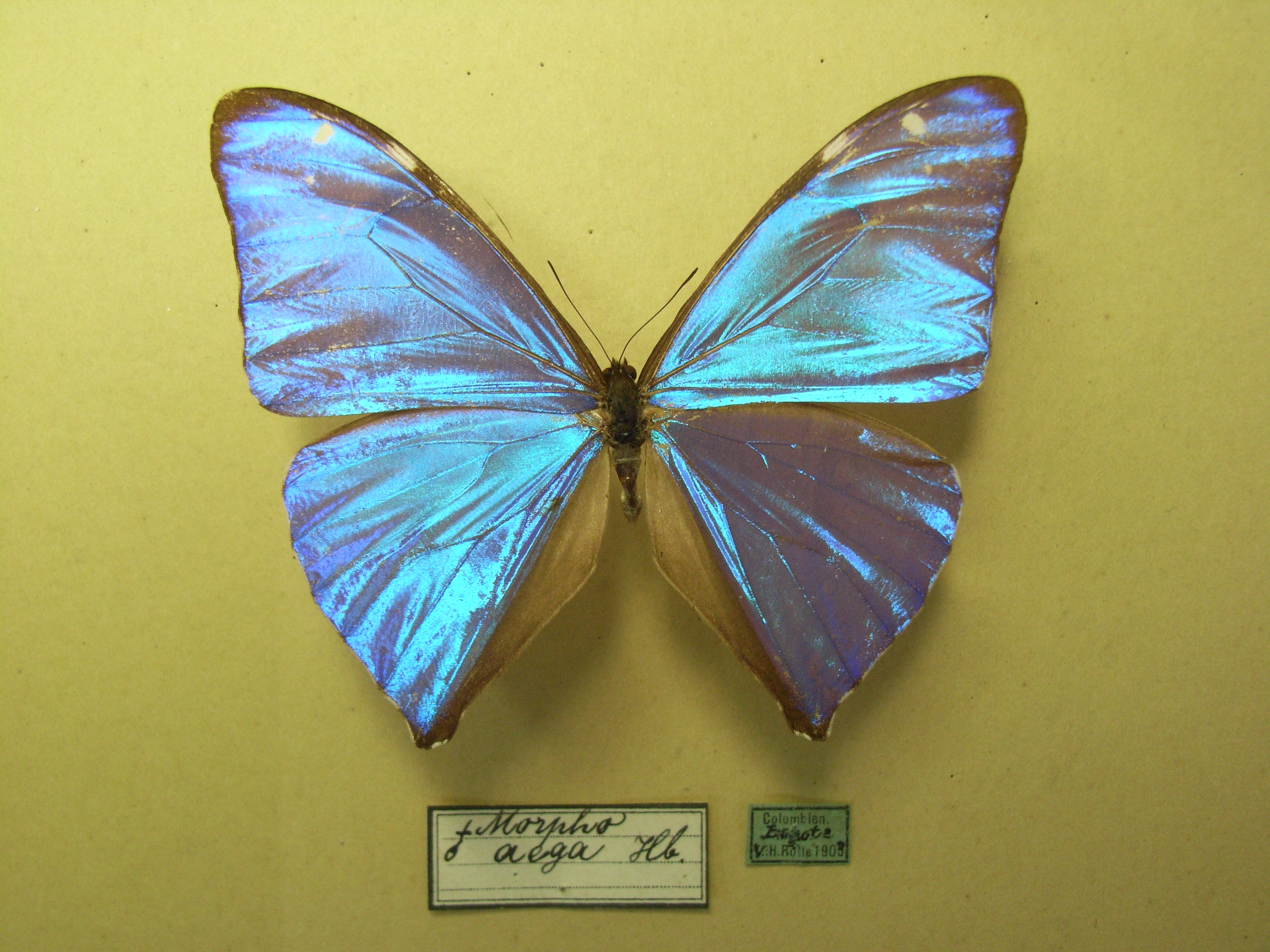 Morpho aega aega(Hübner, [1822]) Ex coll. Museum Wiesenbad